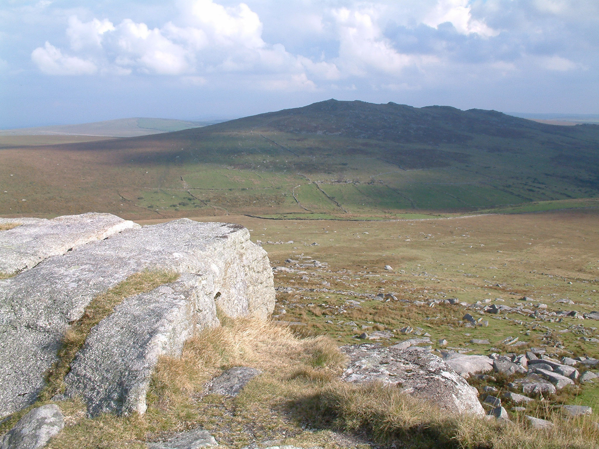 Brown Willy from Rough Tor. Brown Willy is 420m / 1378ft above sea level, and the highest point of Bodmin Moor and of Cornwall. Photograph by Stephen Dawson, 2 October 2003